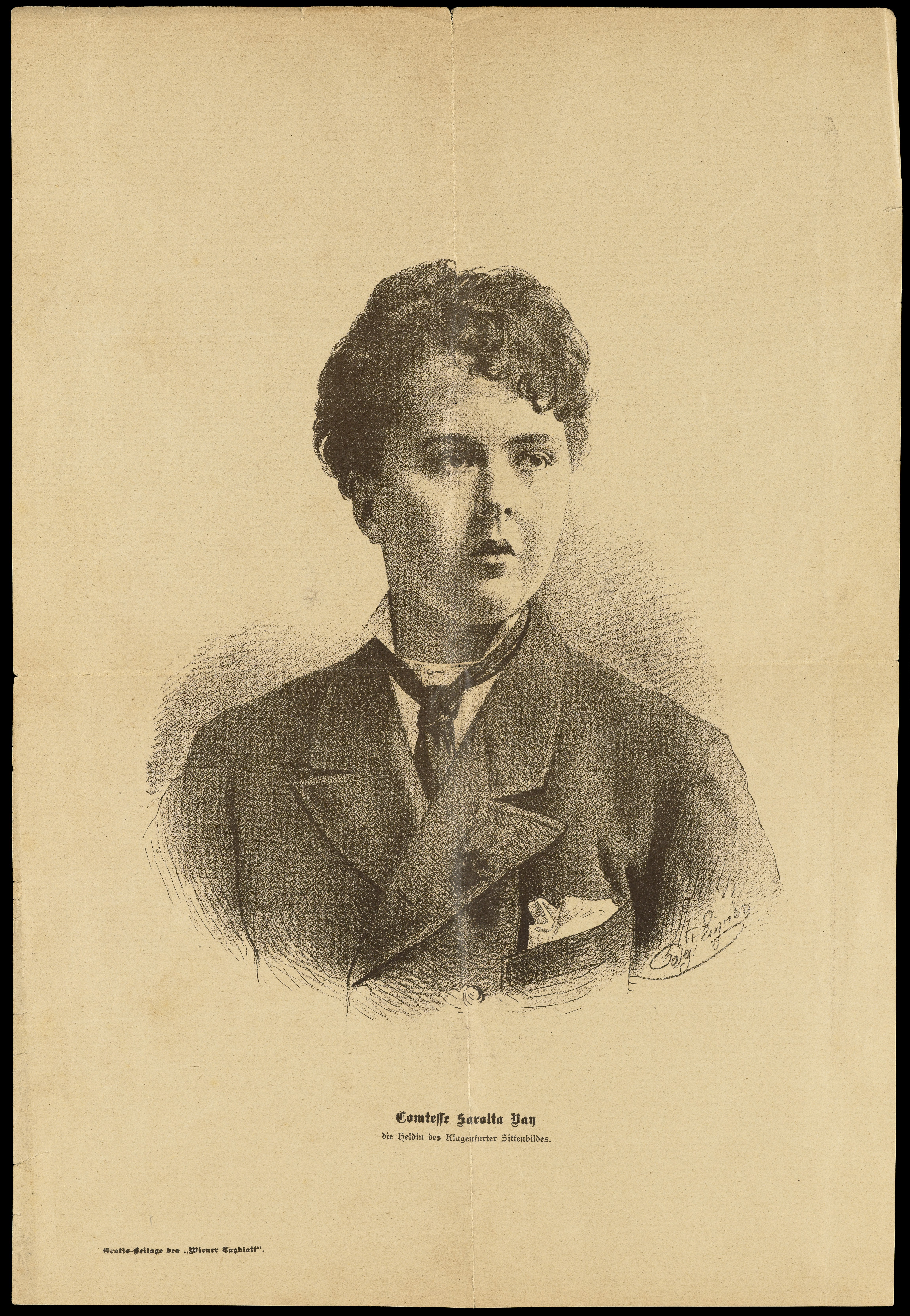 Drawing of 'Comtesse Sarolta Vay' fromWiener Tagblatt Archives & Manuscripts Keywords: Transvestite